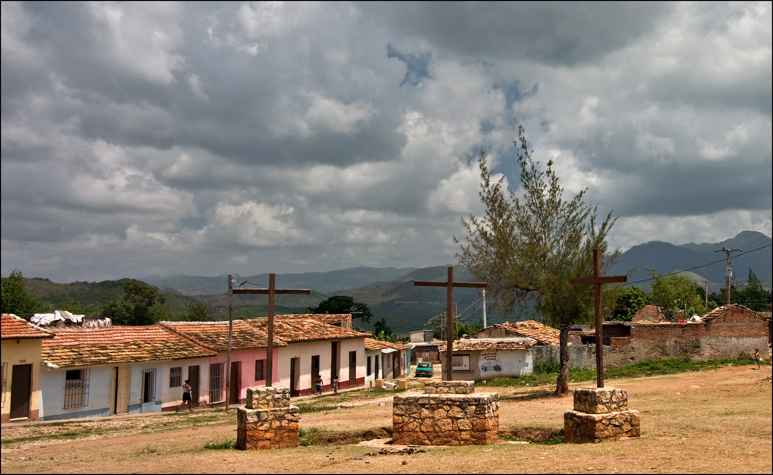 Plaza de Las Tres Cruces in Trinidad, Cuba